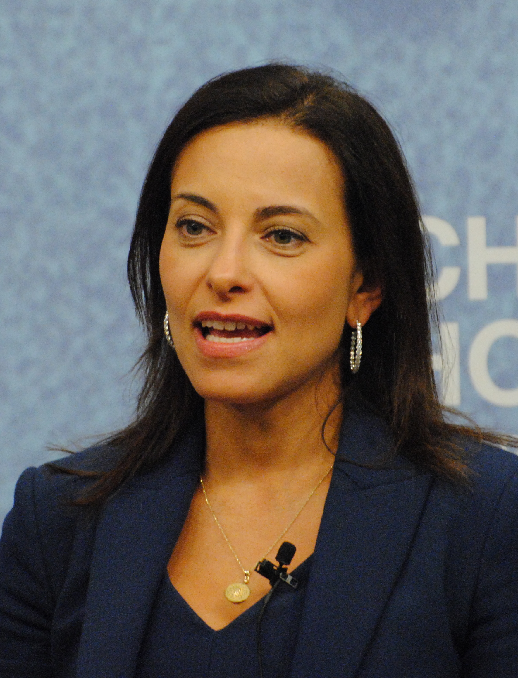 Women's Economic Empowerment in the Middle East and North Africa, 6 July 2015